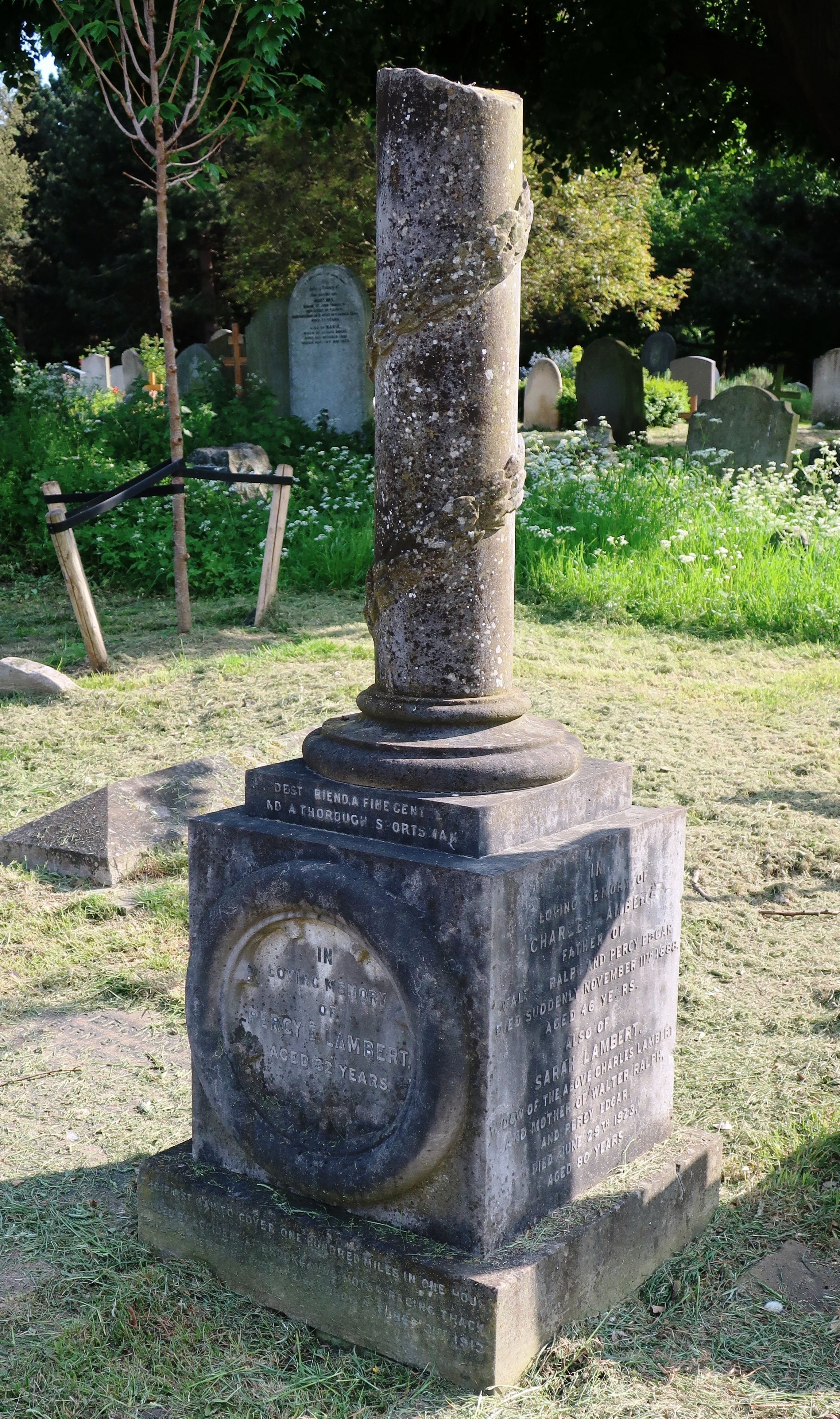 Monument on grave of Percy Edgar Lambert (1881–1913), motor racing driver and car dealer, in Brompton Cemetery, London SW10